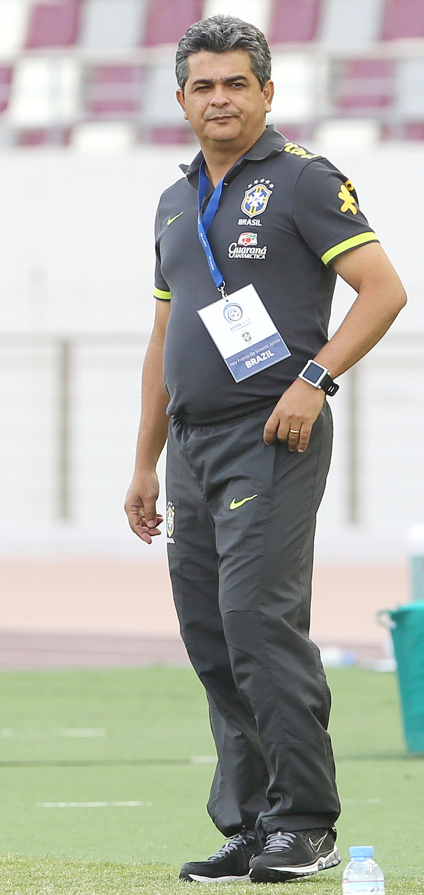 Brazil Under-19 team coach Ney Franco during the ASPIRE Cup at the Khalifa International Stadium. Picture by AK Bijuraj